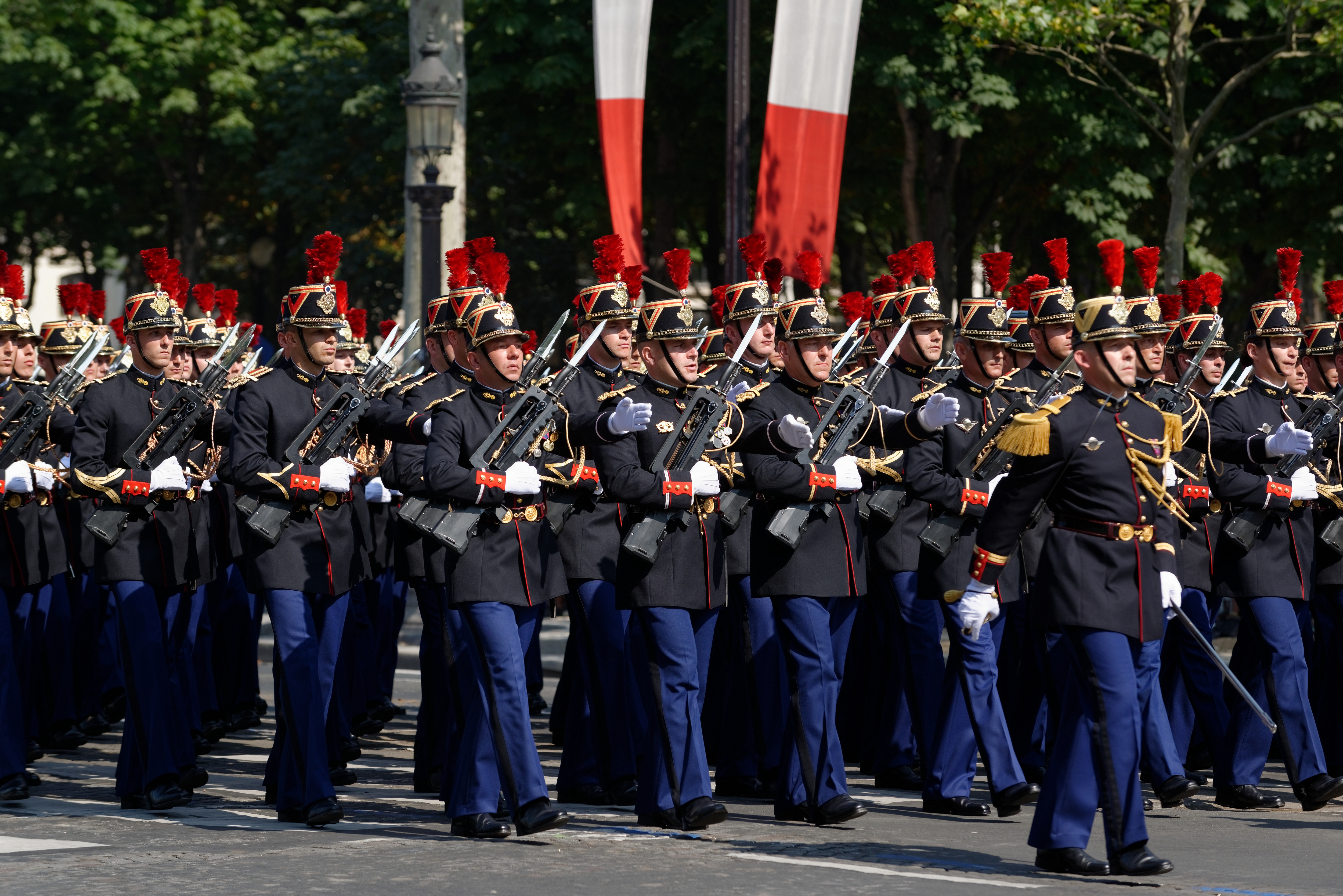 1st Infantry Regiment of the Republican Guard in the Bastille Day 2013 military parade on the Champs-Élysées in Paris.